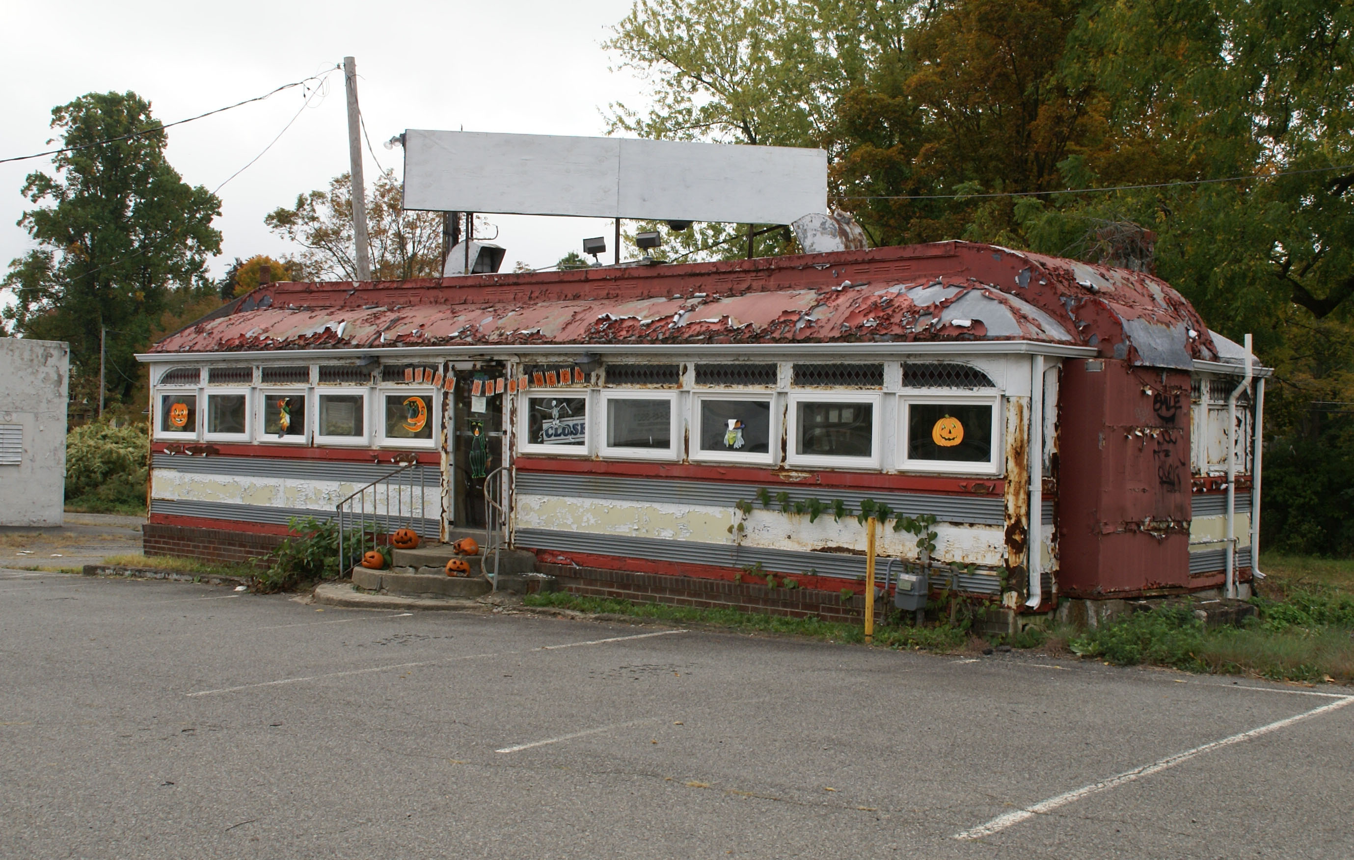 Tom's Diner, circa 1930, was built in Paterson, NJ by the Silk City Dining Car Company